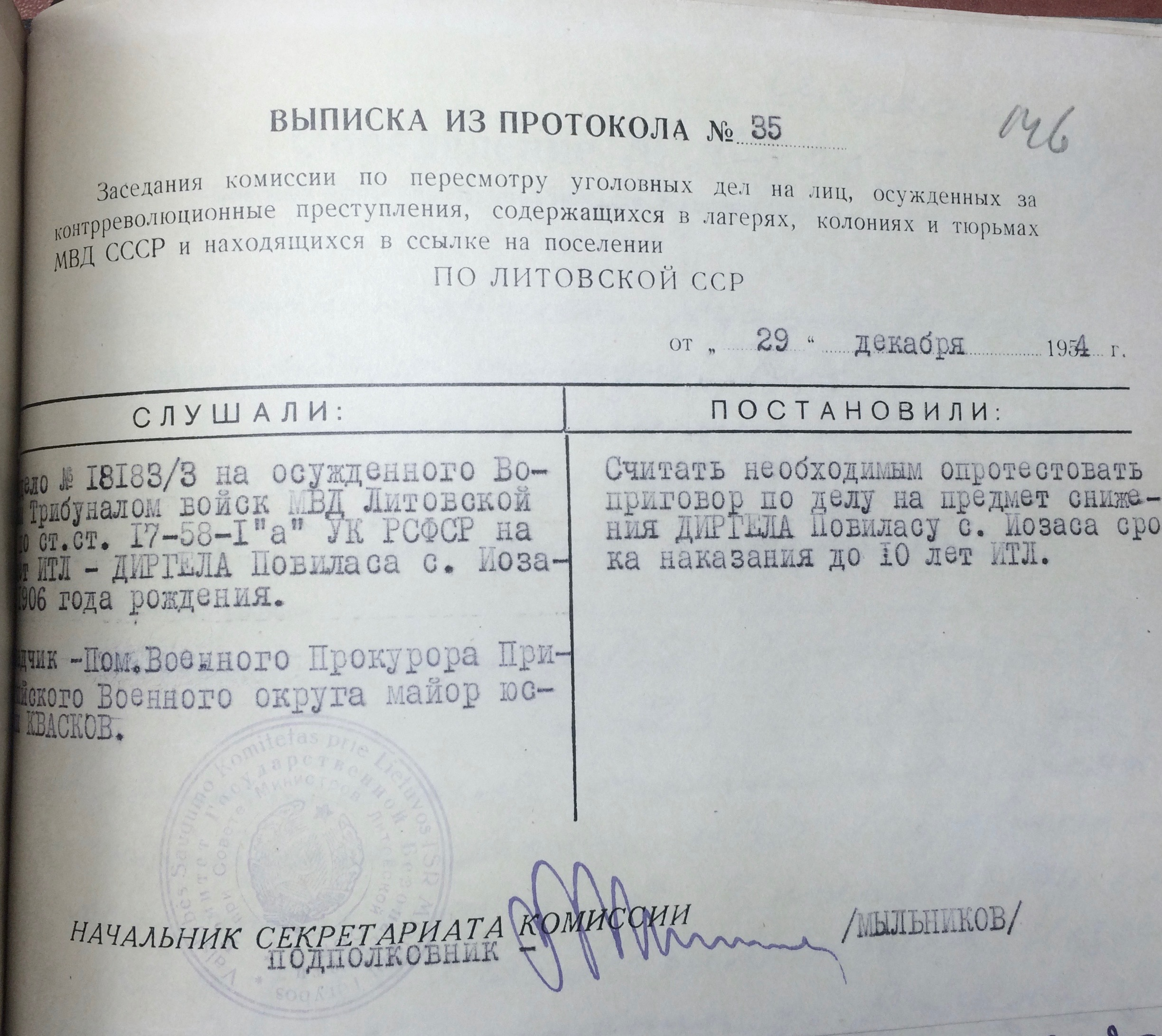 Decision by the special commision to review the GULAG prisoner's sentence. The work to review the sentences of the political prisoners started in 1954 as part of destalinization efforts of the Communist leadership in Soviet Union.